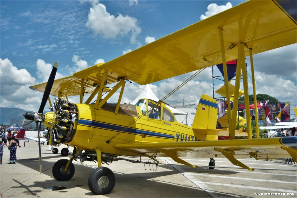 Grumman G-164 Ag-Cat registration YV117A for agricultural use in Venezuela